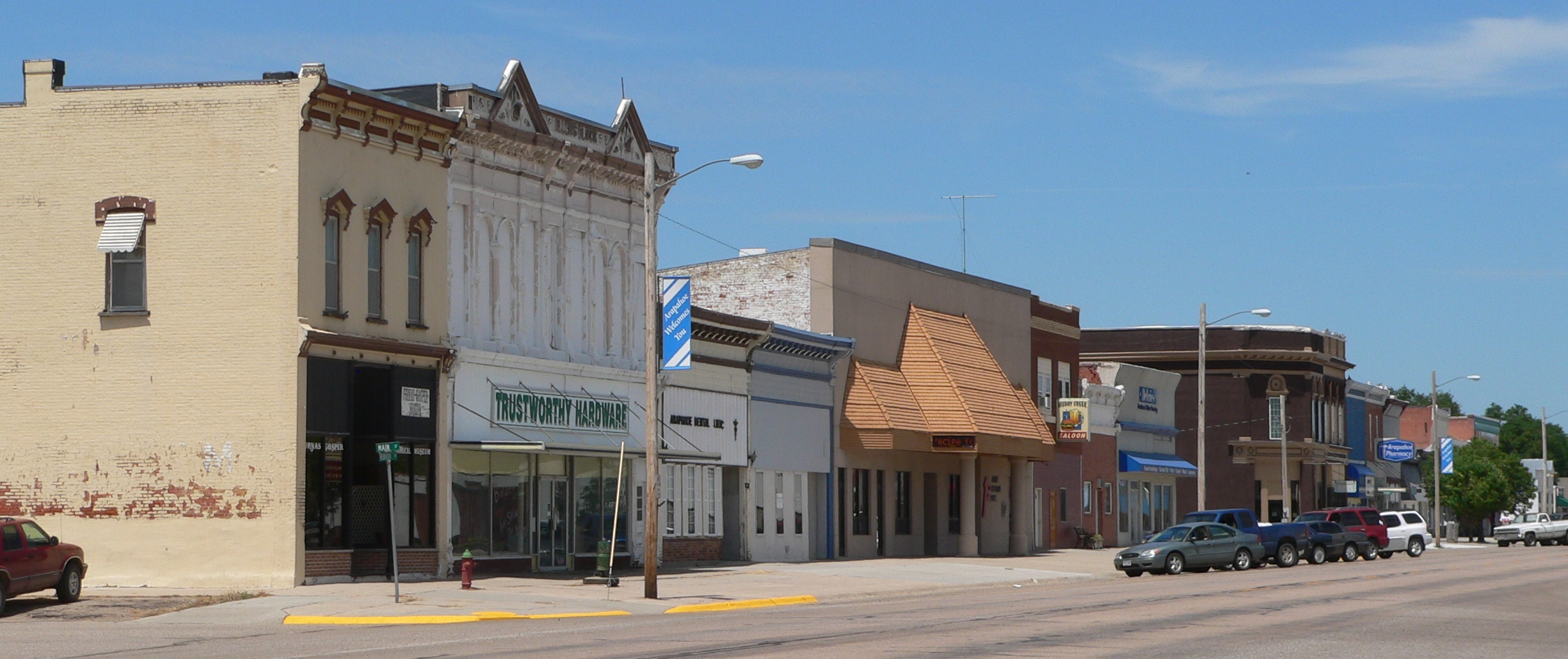 Downtown Arapahoe, Nebraska: west side of Nebraska Avenue, looking northwest from about Main Street.